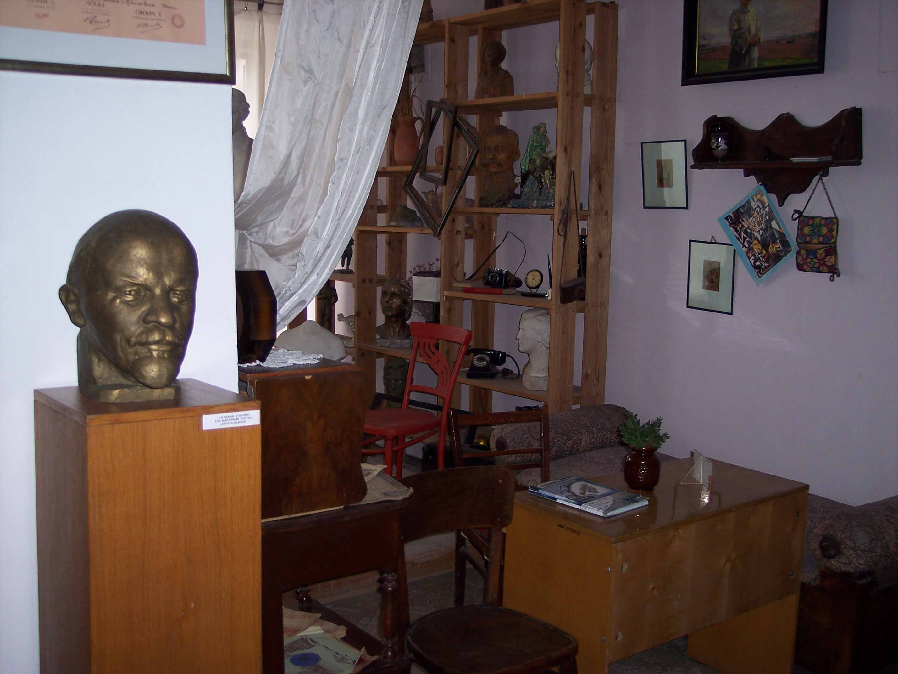 Muhina's Museum, Feodosia, Crimea, Ukraine, display 05